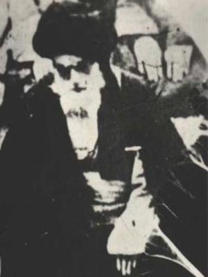 Grand Āyat-Allāh Mirza Sayyid Mohammed Hassan Al-Husseini AL-Shirazi, Marja of shia Muslims in late 19th century.